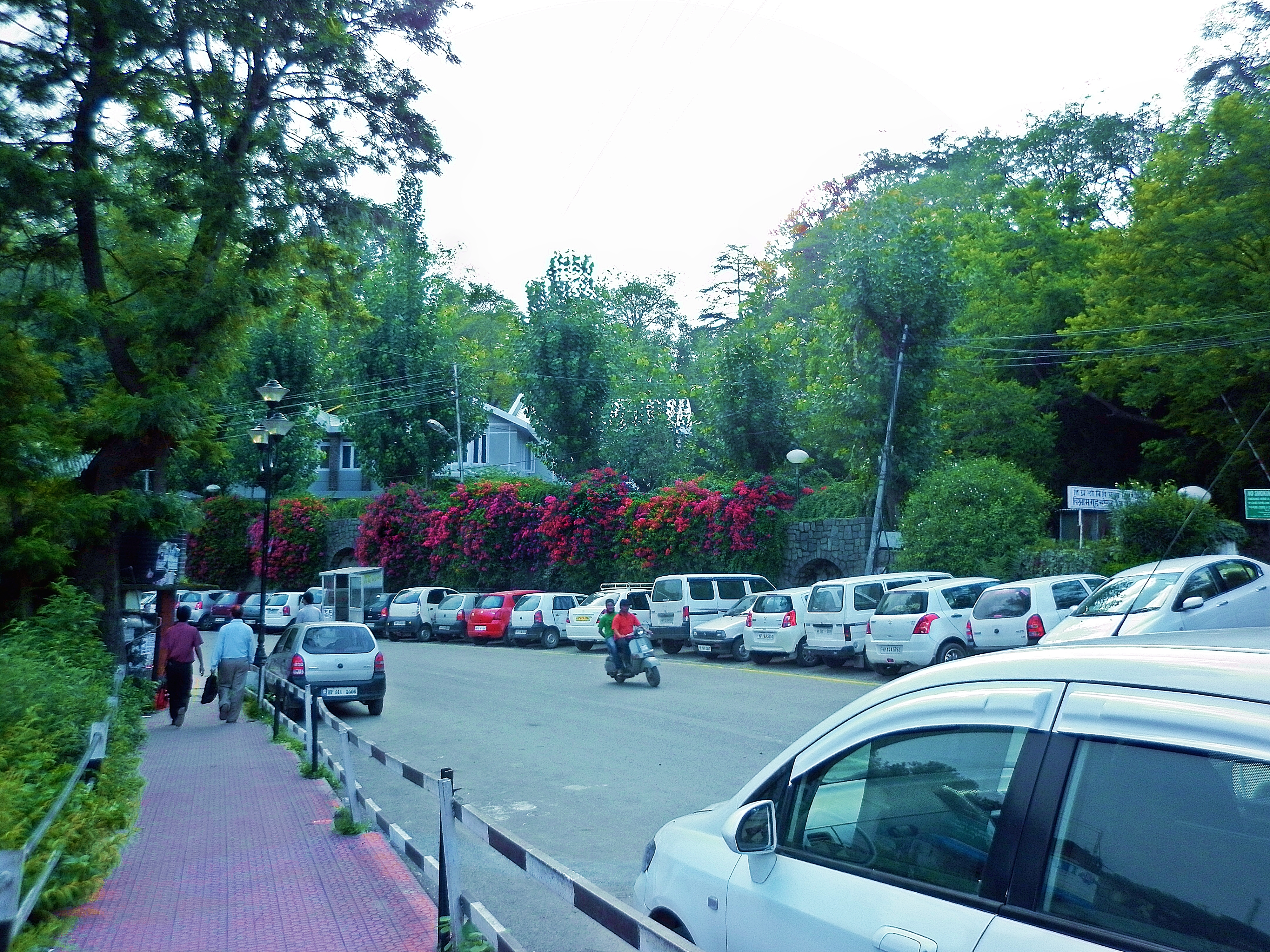 HPPWD Solan rest house and parking